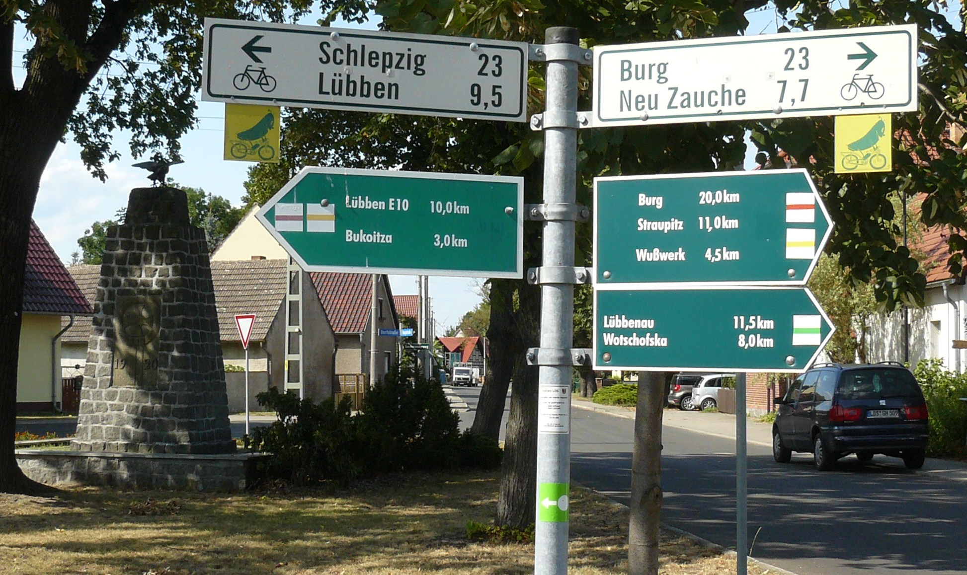 Fingerpost in Alt Zauche, district of Alt Zauche-Wußwerk, Landkreis Dahme-Spreewald, Brandenburg, Germany. The war memorial in the background is a listed cultural heritage monument.